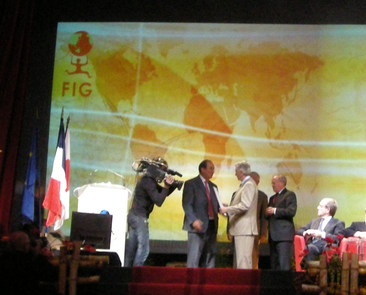 Spanish geographer Horacio Capel Saez awarded at the International Festival of Geography